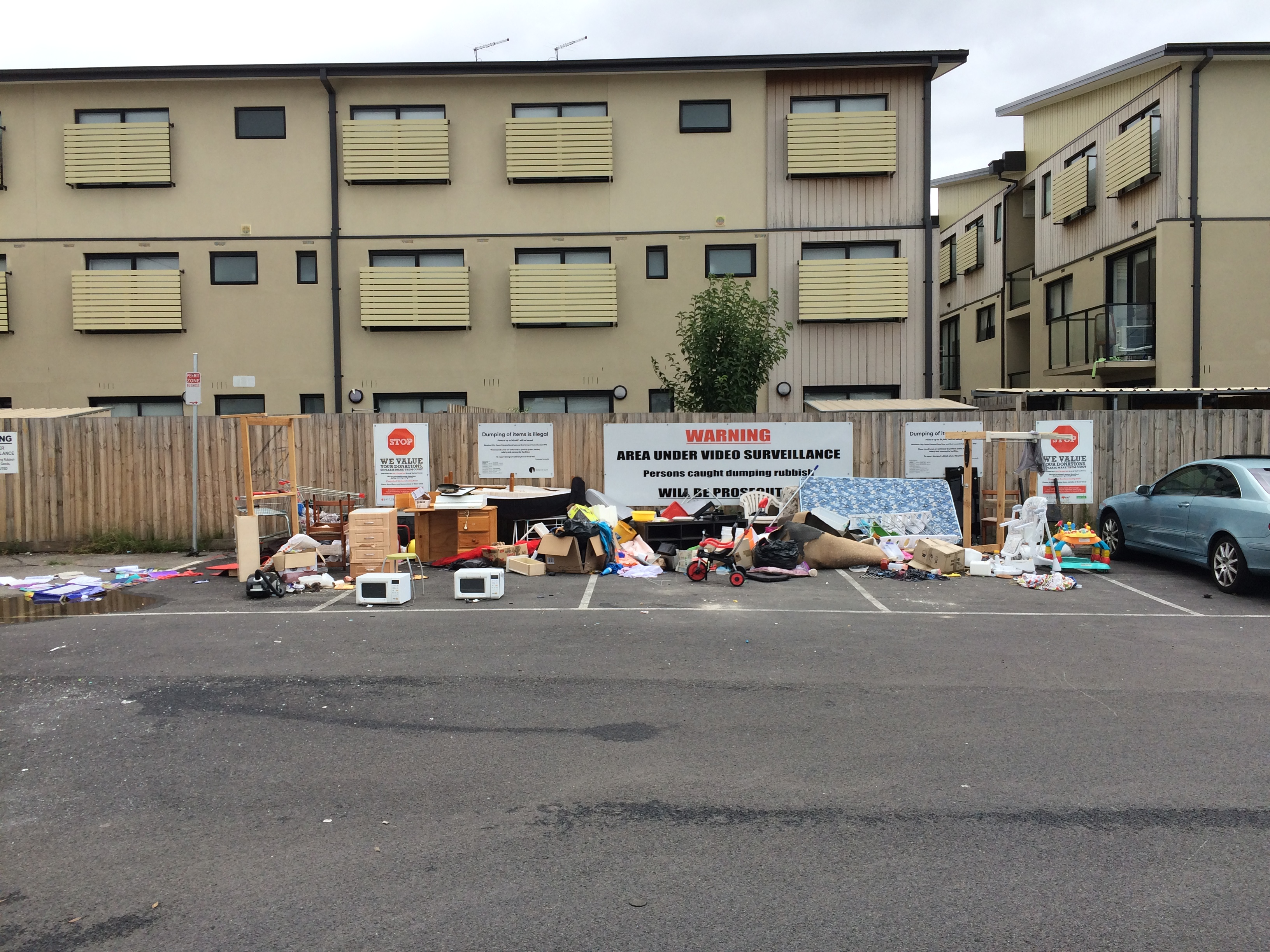 Anti-dumping signage with items laid out in the car park next to it